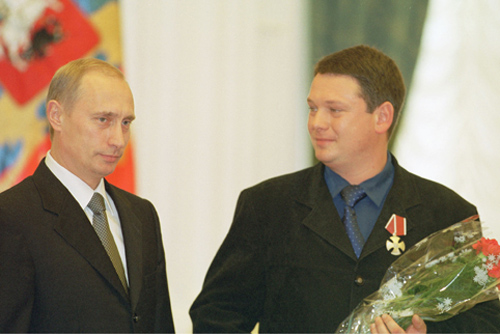 THE KREMLIN, MOSCOW. President Vladimir Putin conferring state awards on a group of Russian journalists. Oleg Groznetsky, Baltic office head of the ORT national television, receives the Order of Valour.